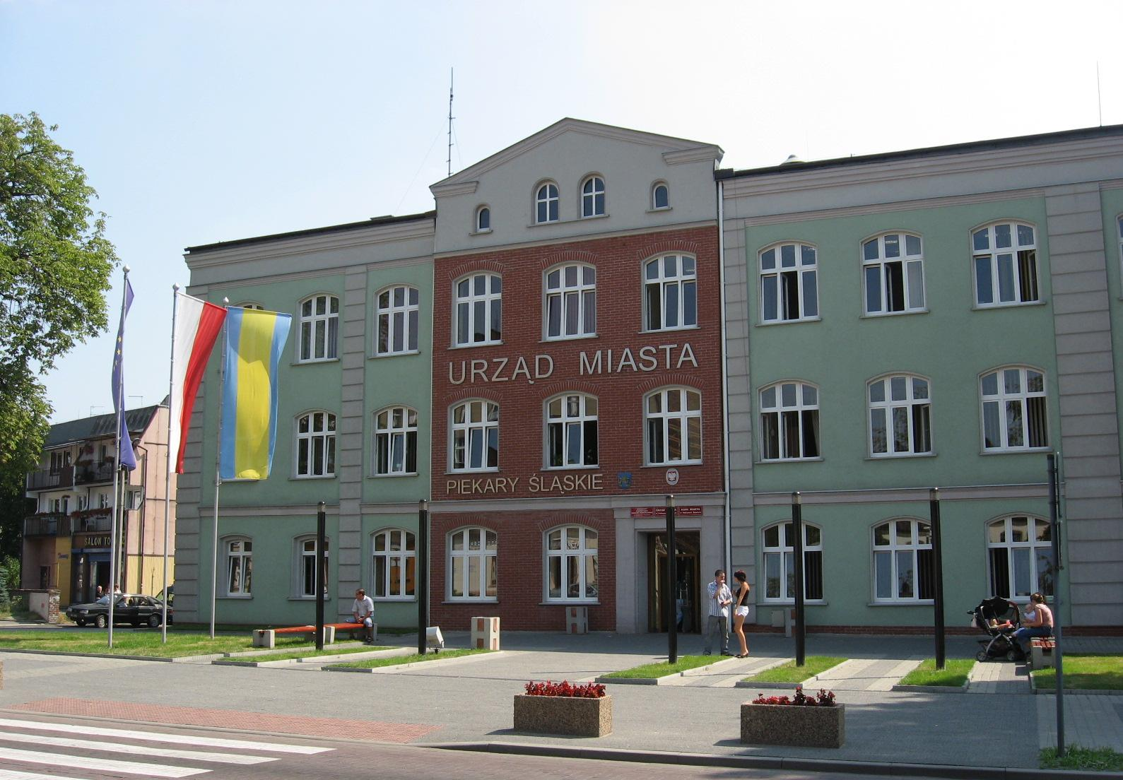 Piekary Śląskie City Hall at Bytomska street #84